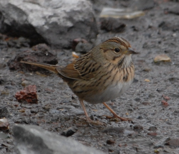 A Lincoln's Sparrow pauses by the water.